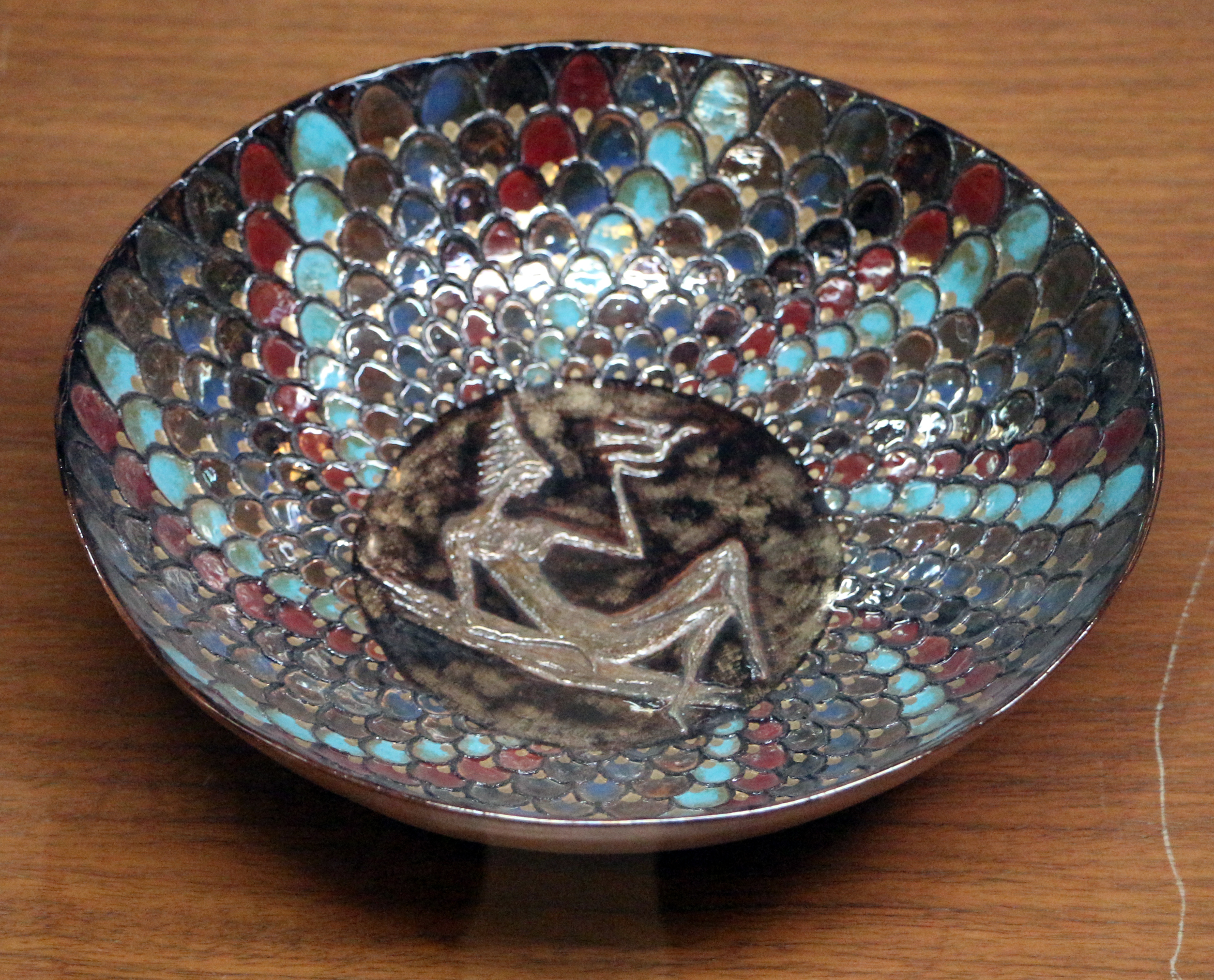 Raccolte d'arte applicate del Castello Sforzesco di Milano - Pottery